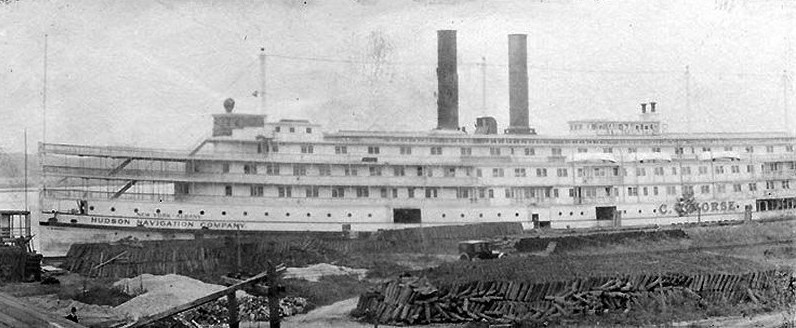 C.W. Morse (American river passenger steamer, 1903). In port, possibly at New York City at about the time she was chartered by the U.S. Navy in December 1917. This steamer was employed as the receiving ship C.W. Morse (ID # 1966) in 1917-1919.